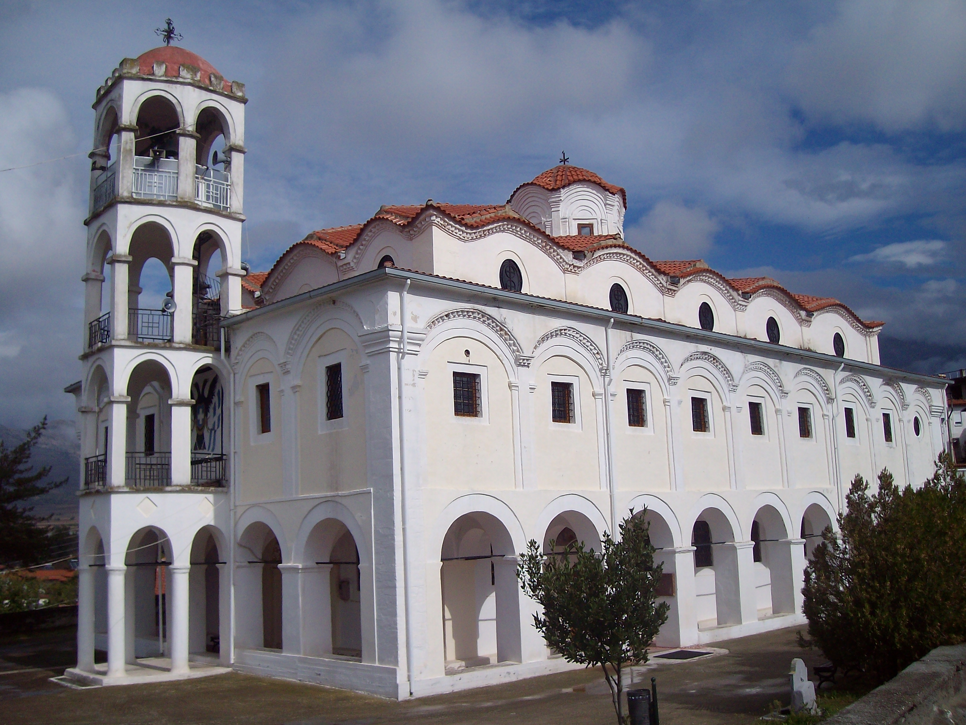 "St. Prophet Elijah" church in the village of Achladohori (Krushevo) , Northern Greece